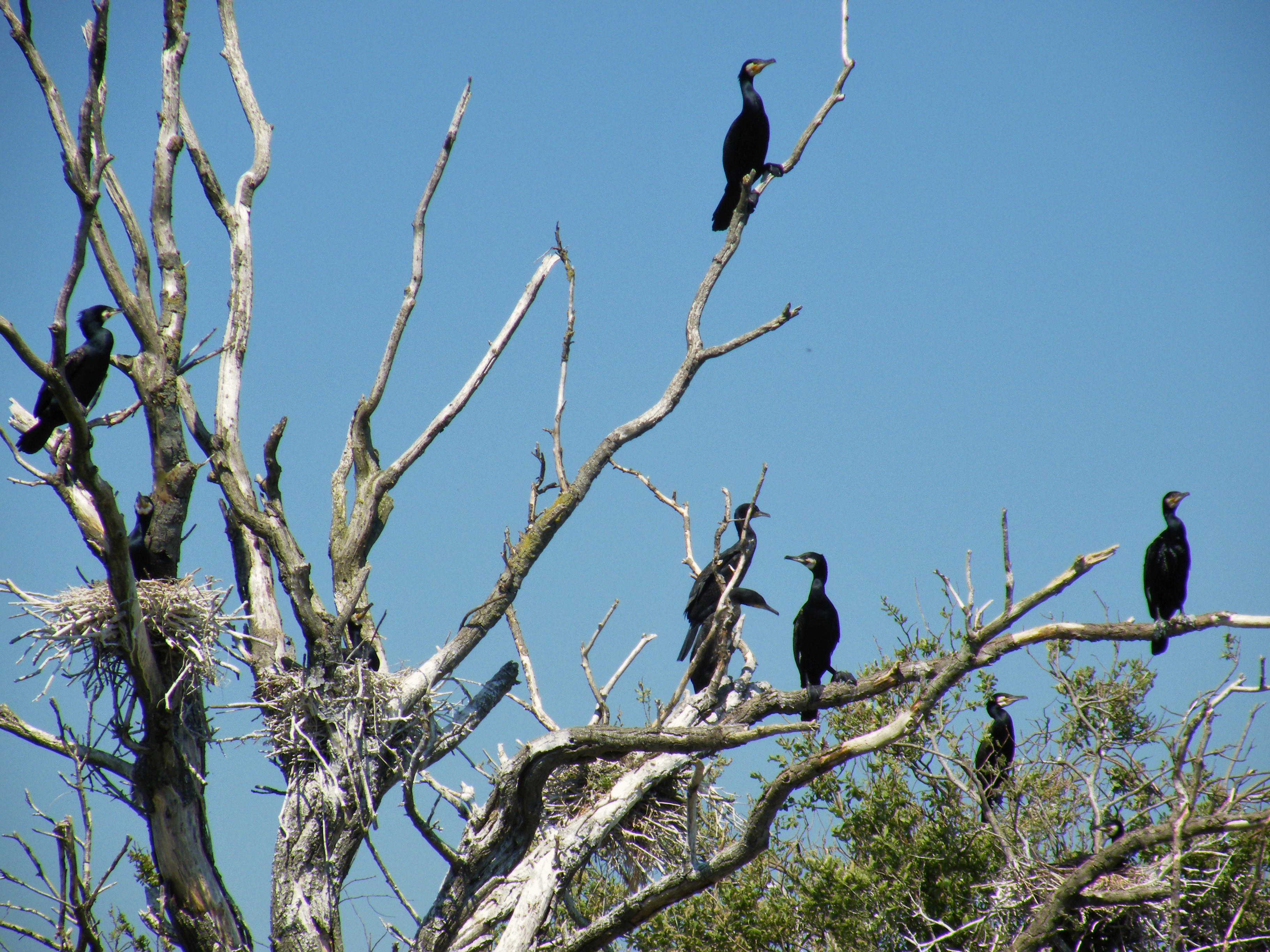 Nesting cormorants, Rye, England, United Kingdom. Photo is captured in May.